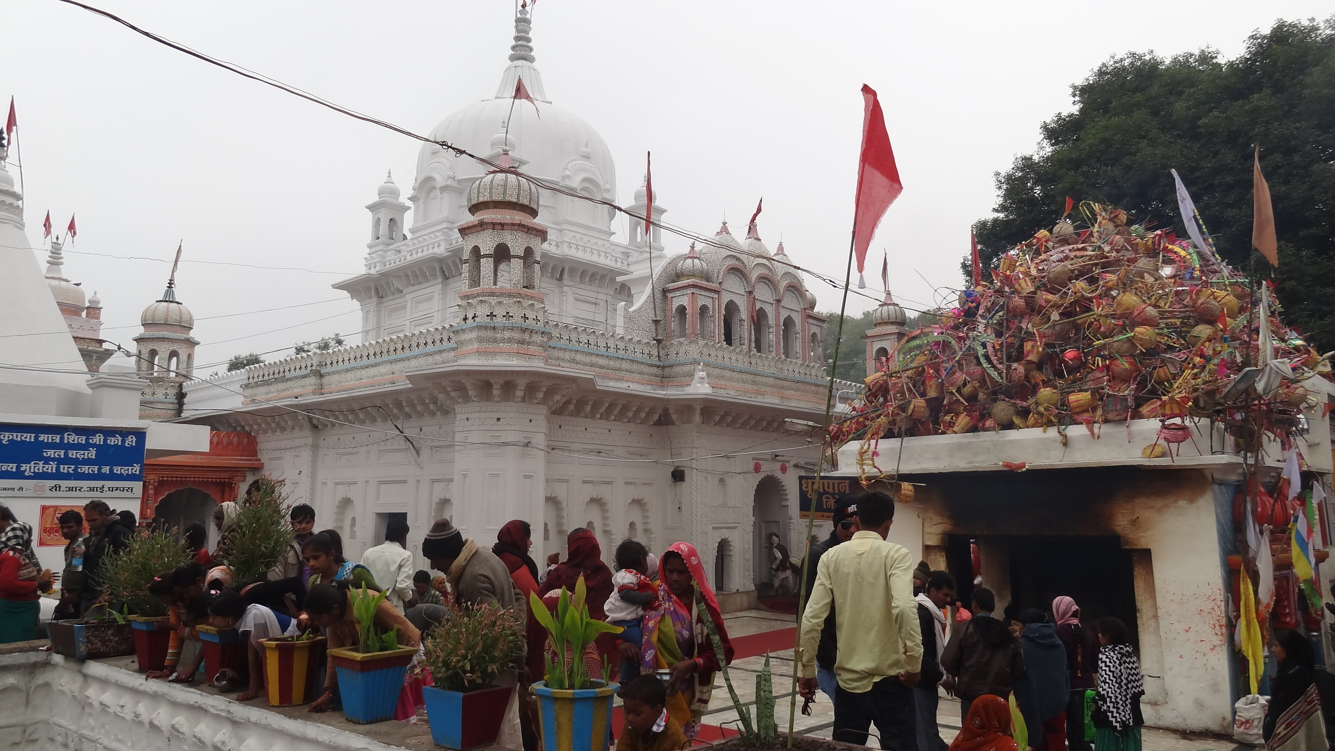 Parvati temple facing Shiva temple